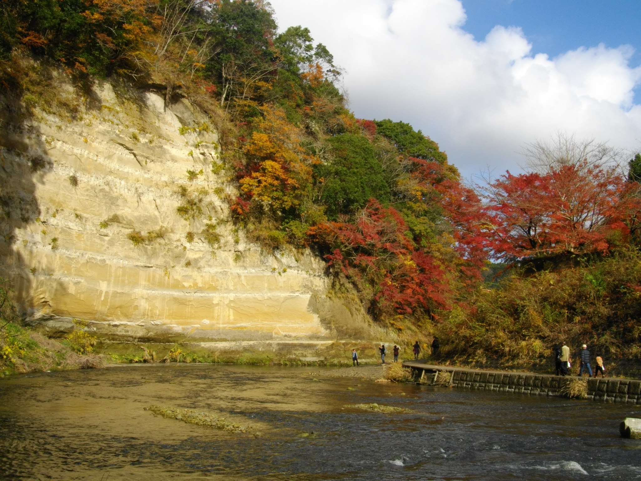 Yoro Keikoku